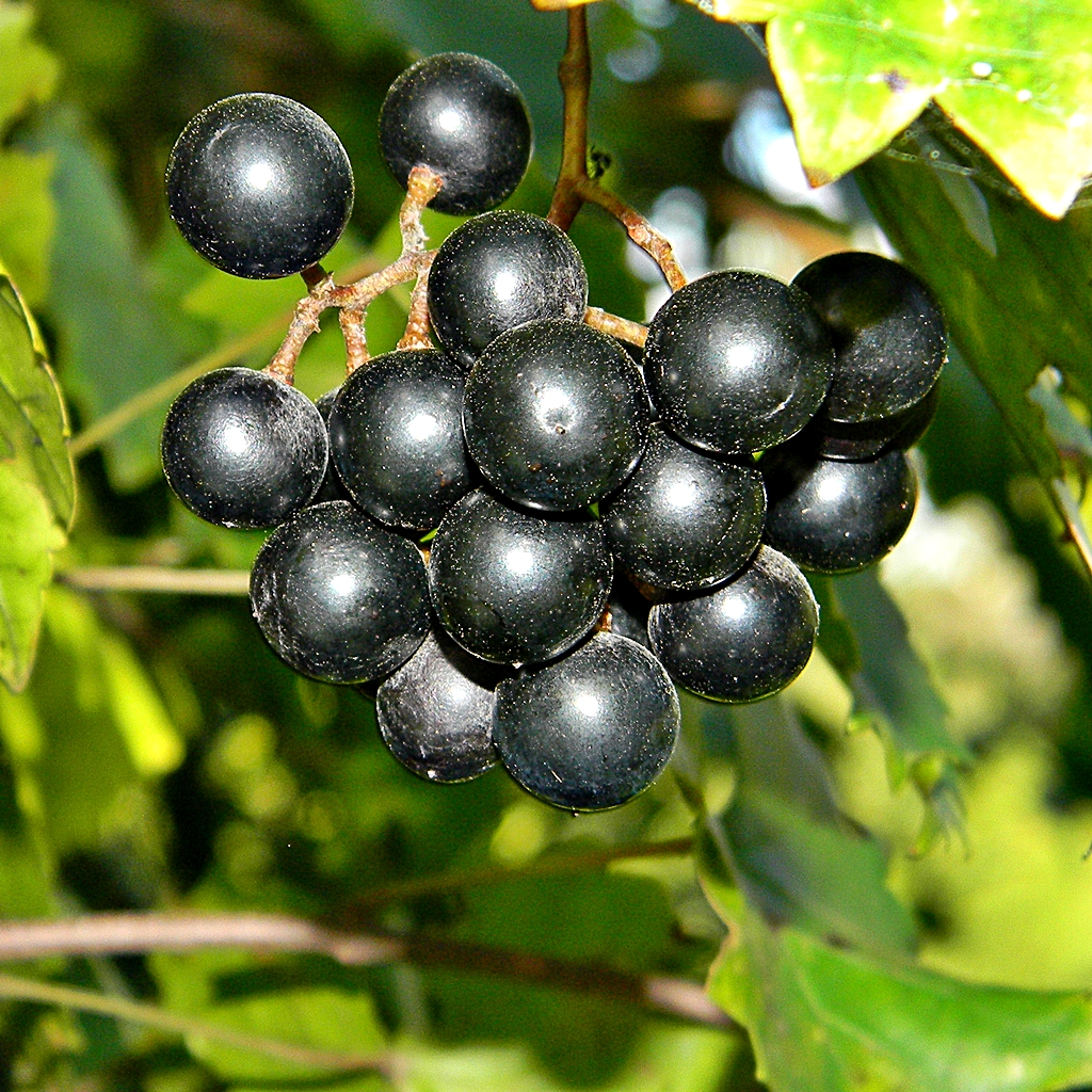 Things I ate category :-) Wild muscadine grape (Vitis rotundifolia) perfectly ripe in the morning sun. These small wild grapes taste amazing! Many wild birds and animals eat them so I only tried a couple. The vines can sometimes overwhelm supporting trees and shrubs. It is the larval host plant for some local species of Sphinx moths.